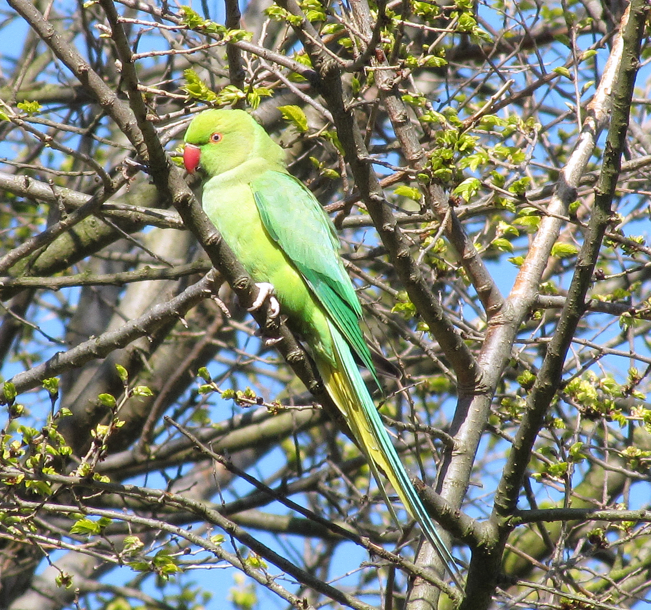 Feral Rose-ringed Parakeets in Hartsdown Park, Margate, Kent, England.